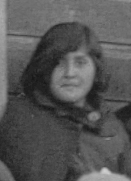 Alice Piper, (~age 15). Cropped from a larger picture showing a group of Big Pine Paiutes standing in front of the Paiute Community Center, c. early 1920s